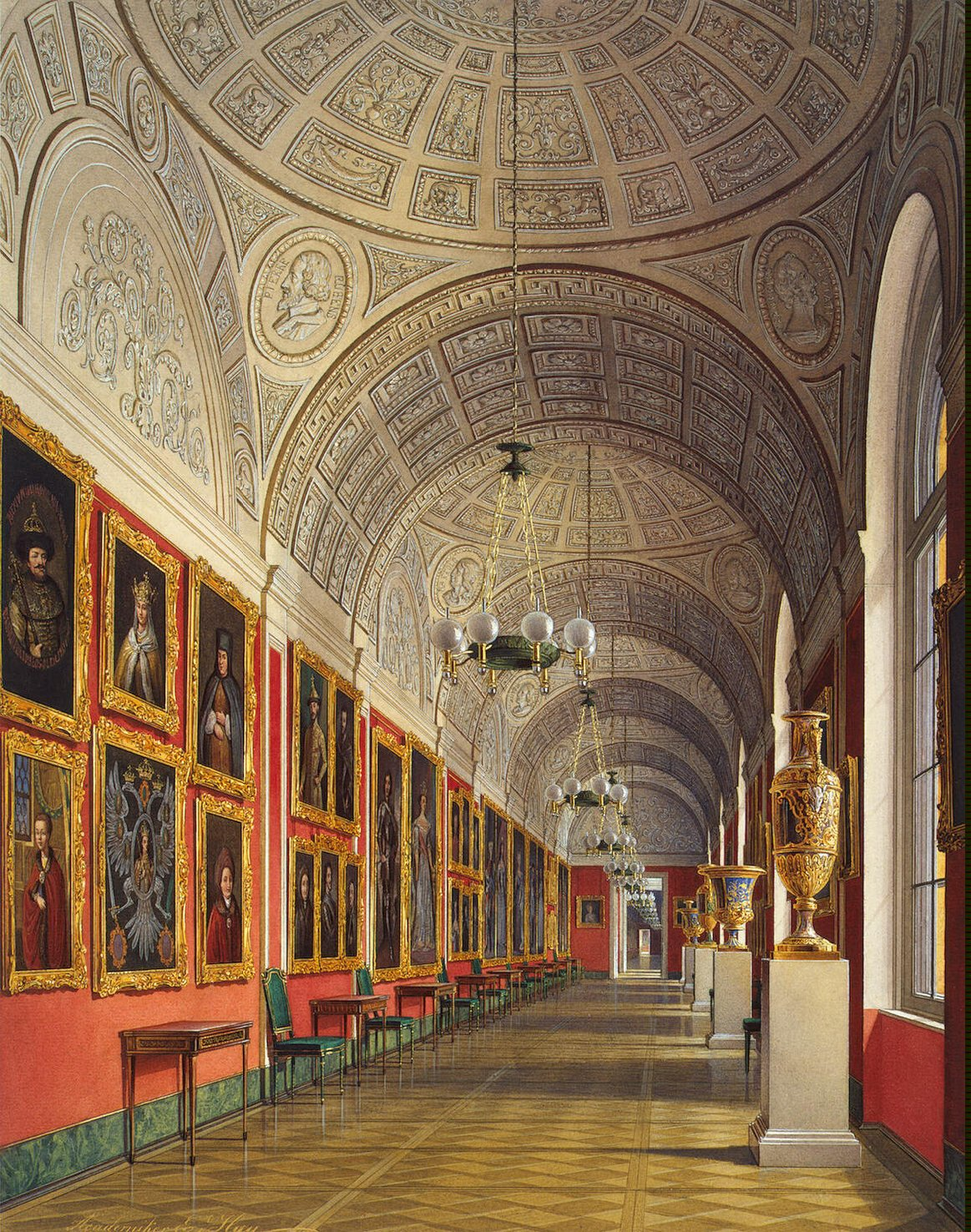 Interiors of the Small Hermitage. The Northern Part of the Romanov Gallery